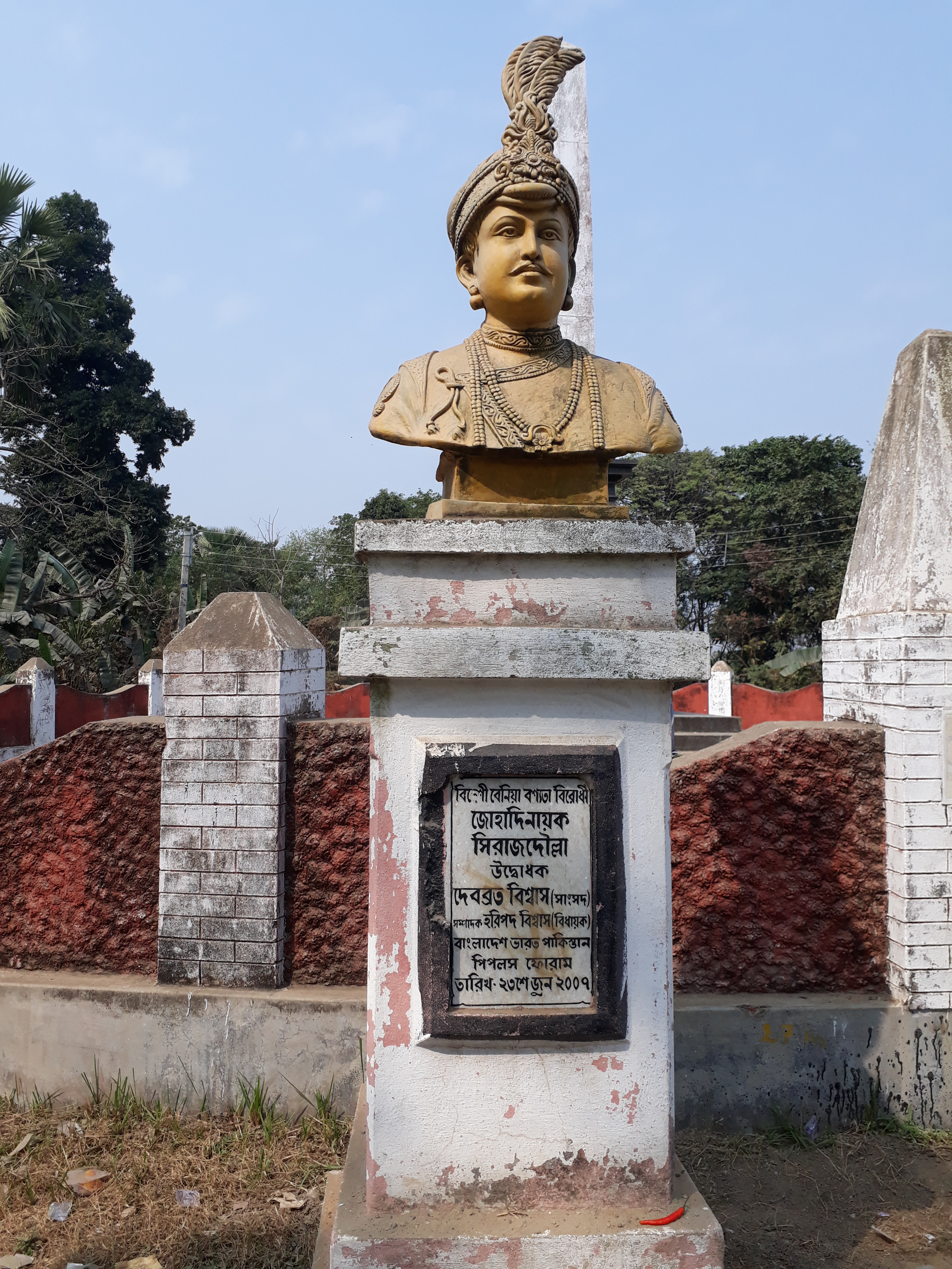 Statue of Siraj. Palashi battlefiel. Nadia